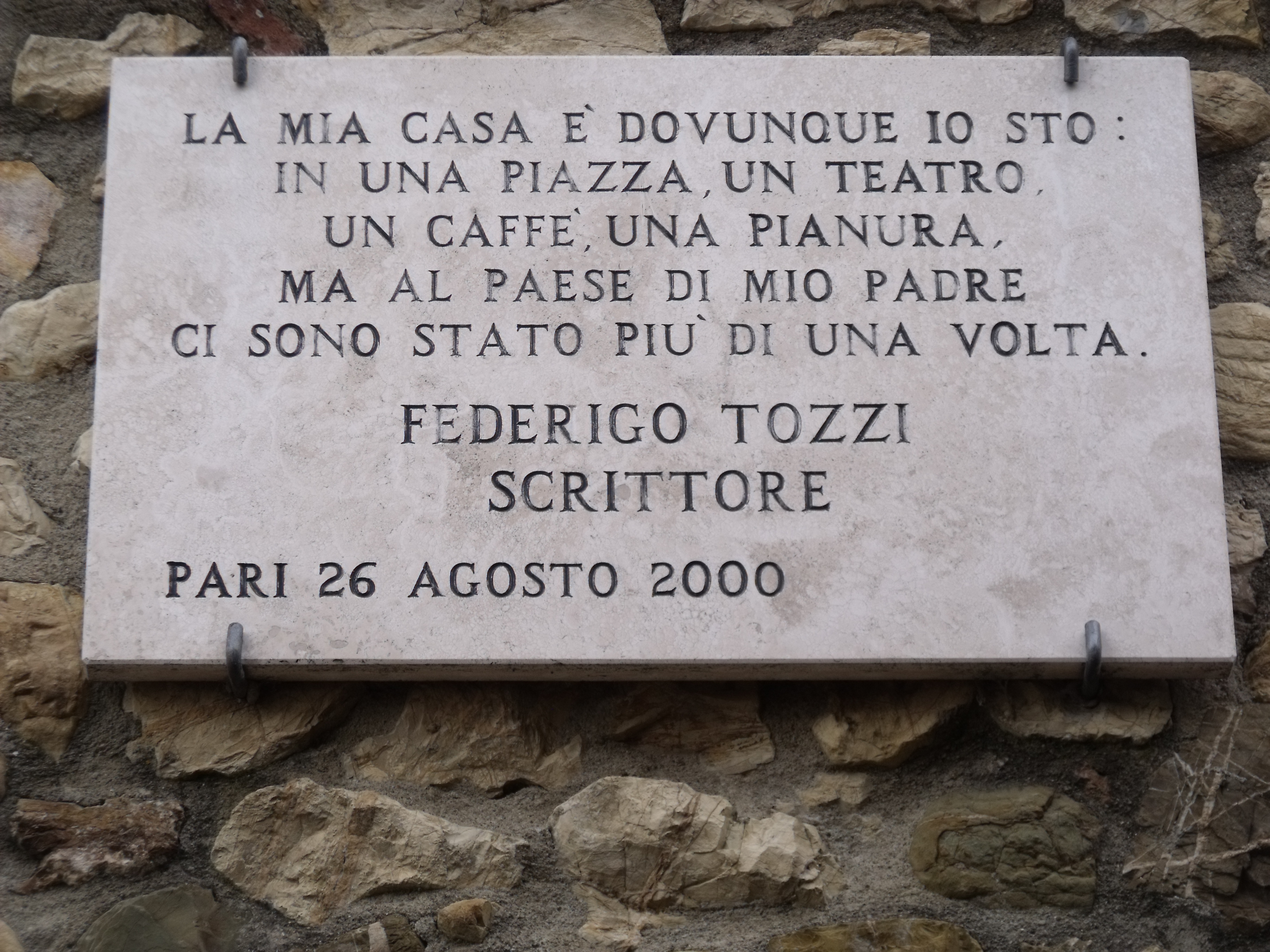 Sign on the house of Federigo Tozzi's father in Pari, hamlet of Civitella Paganico, Province of Grosseto, Tuscany, Italy